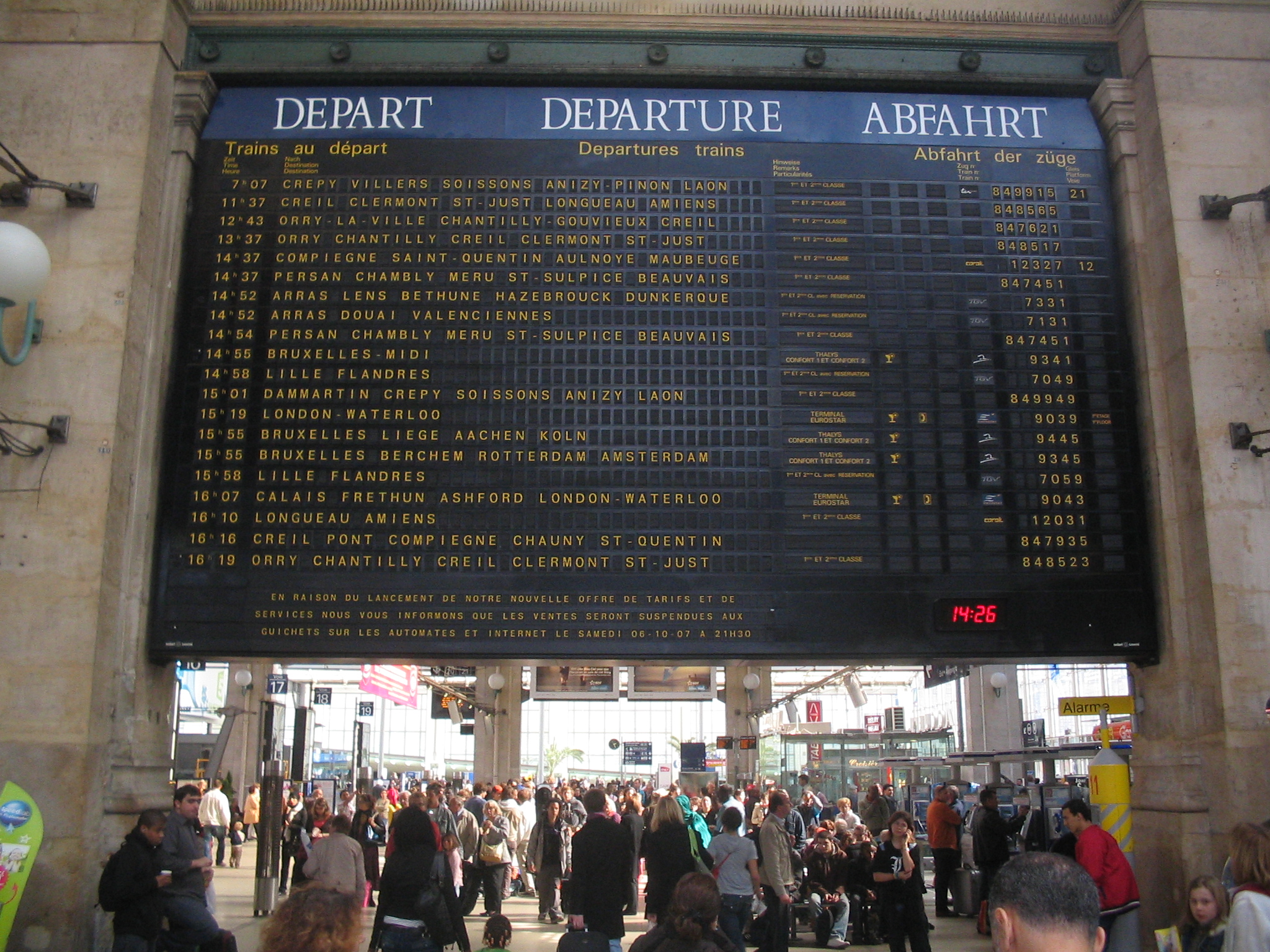 Flap (Solari) display departure board at Gare du Nord, Paris, France